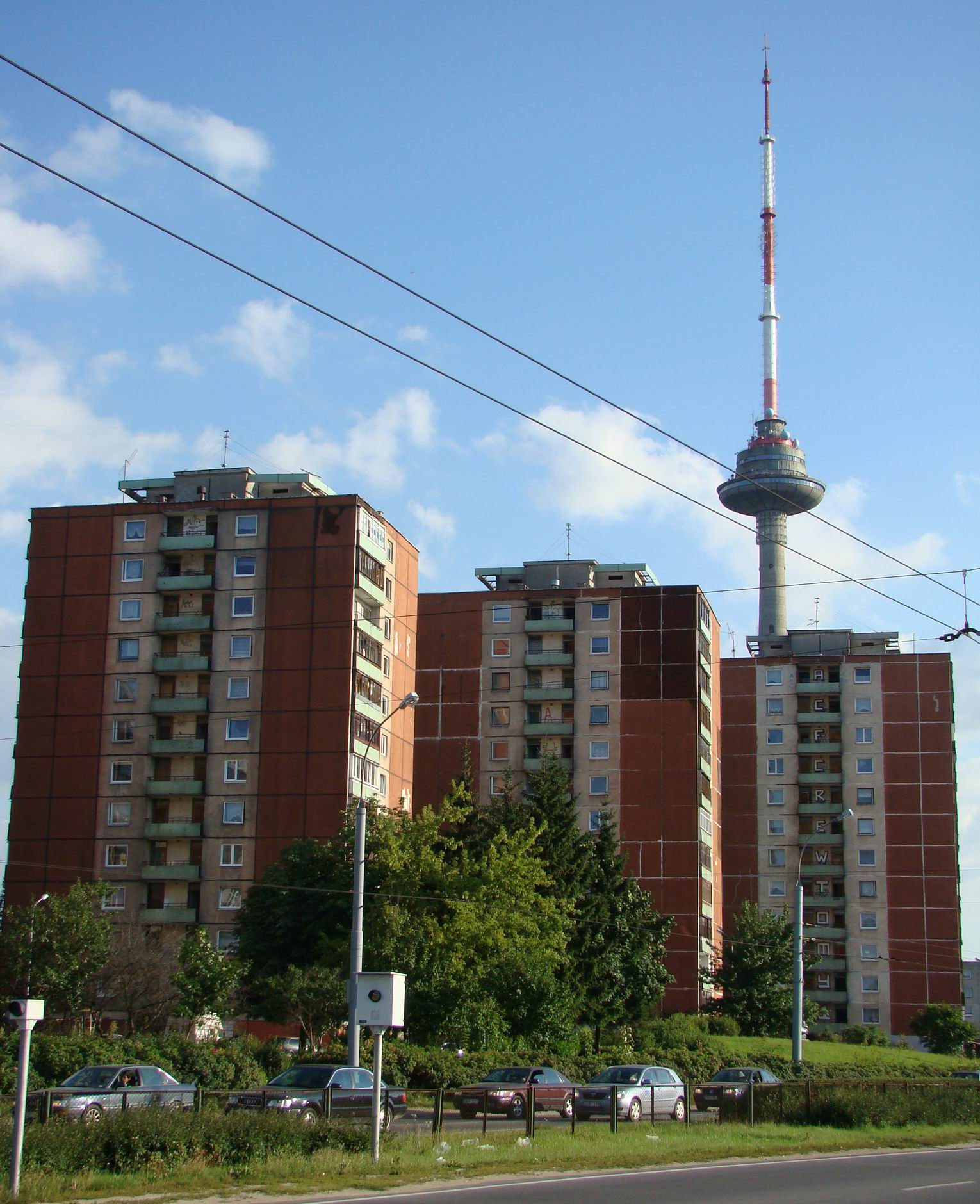 view in Karolinishkes district Vilnius